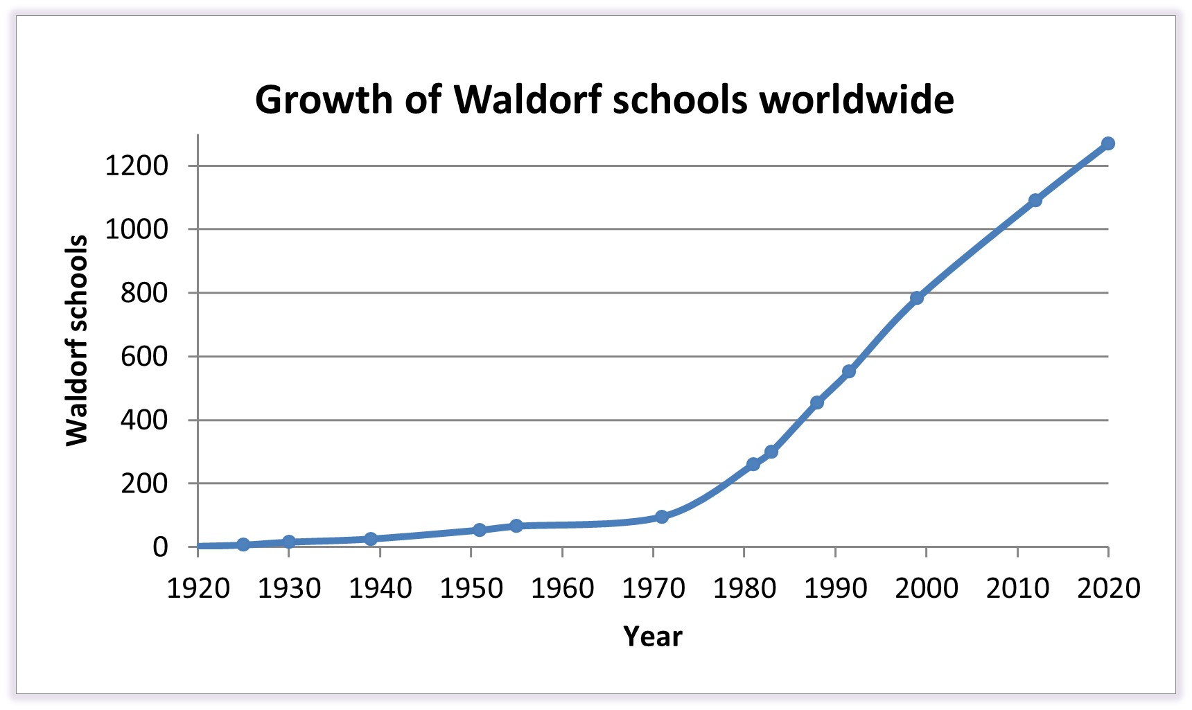 Charts the number of schools from 1919, the founding of the first Waldorf schools, to present day